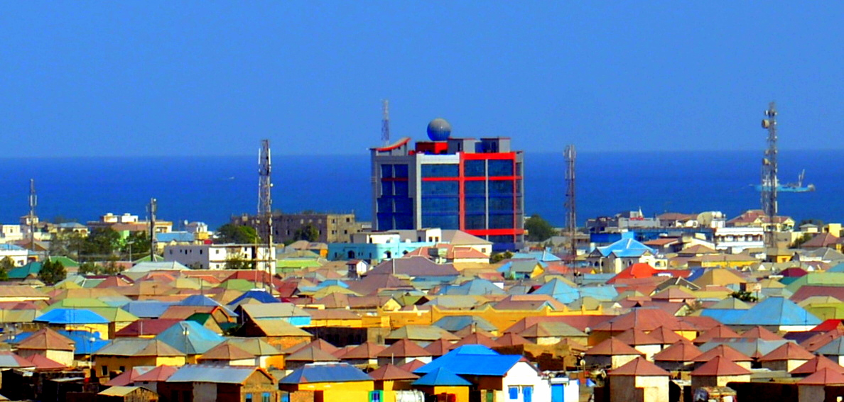 Bosaso Centre